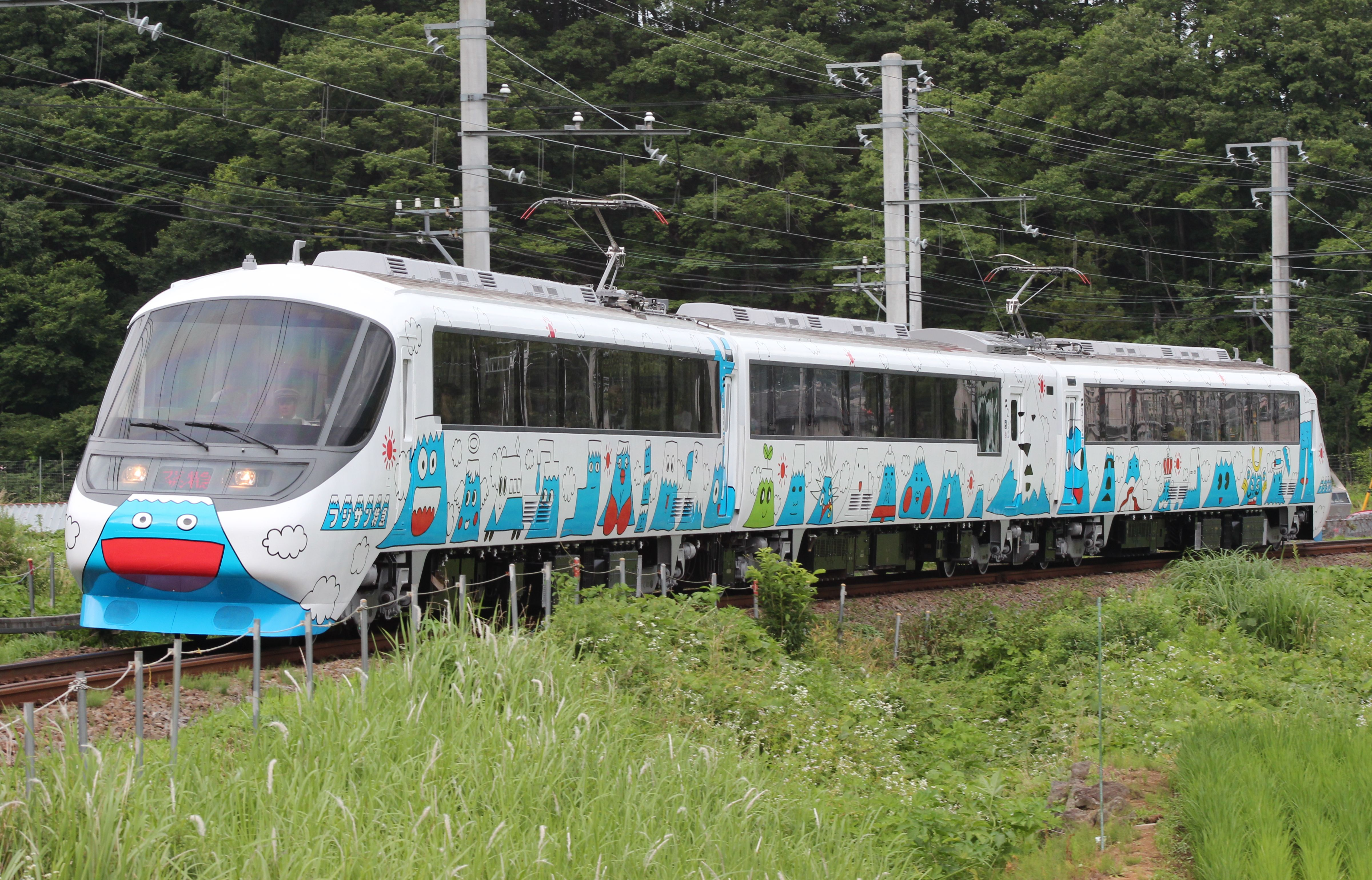 The Fujikyu 8000 series EMU on a Fujisan Limited Express working on the first day of revenue service